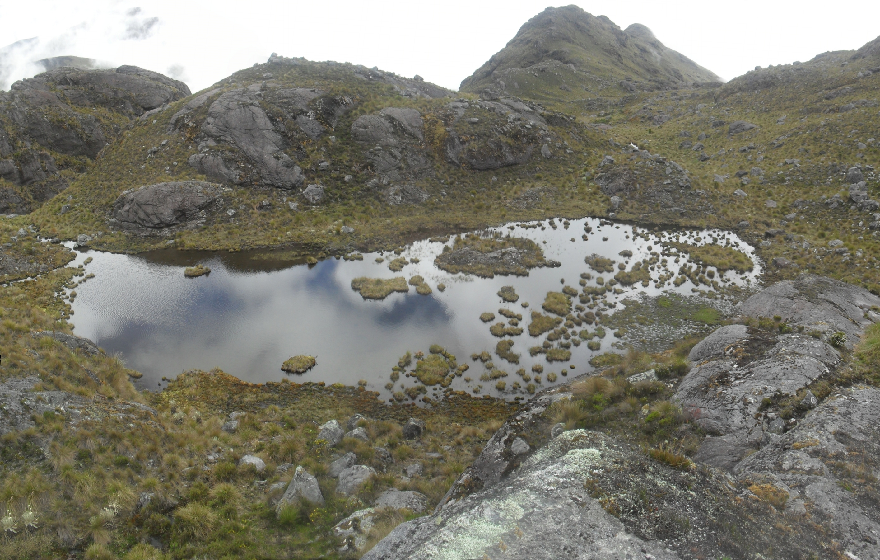 Lake La Vaca in the Protected area "Sisavita", Norte de Santander, Colombia